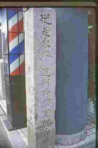 Ashikaga shogunate Muromachi marker Muromachi period History of Japan Kyoto Japan I took this photograph and contribute it to the public domain.